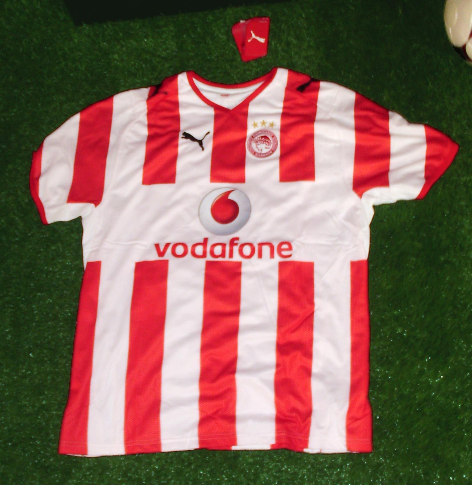 Olympiakos_Shirt_2008-2009 (From Athens Sport show 2008)